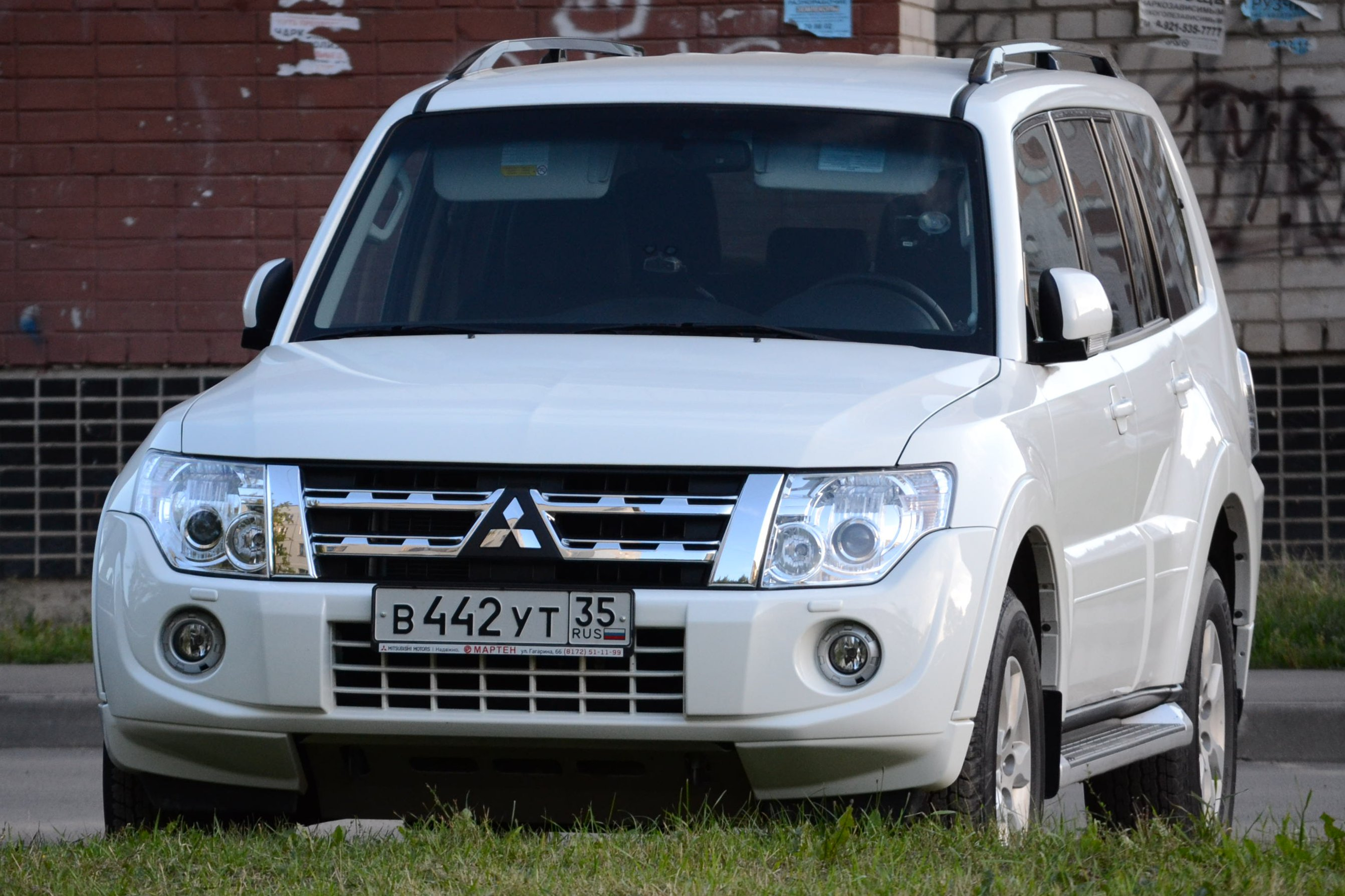 2012 Mitsubishi Pajero (in Russia)